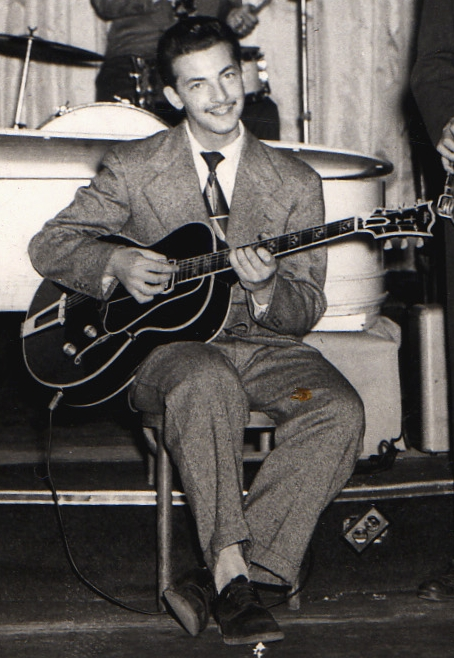 Jazz guitarist Ronnie Singer, late '40s / early '50s